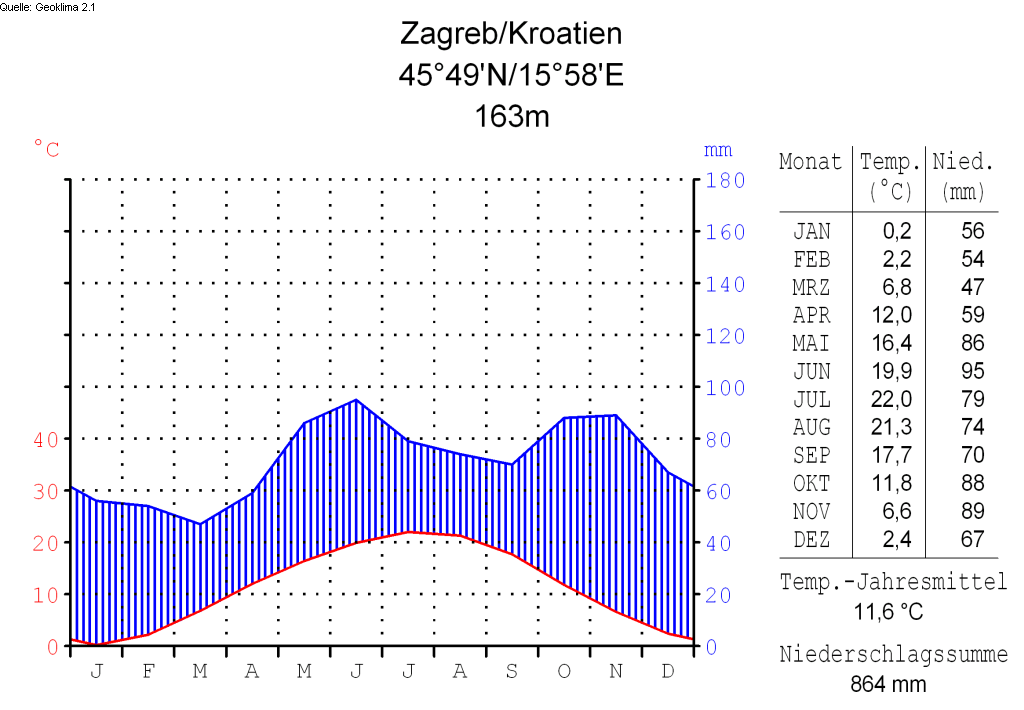 climate chart in the format by Walter and Lieth, metric, °Celsisus and millimeters, made with Geoklima 2.1